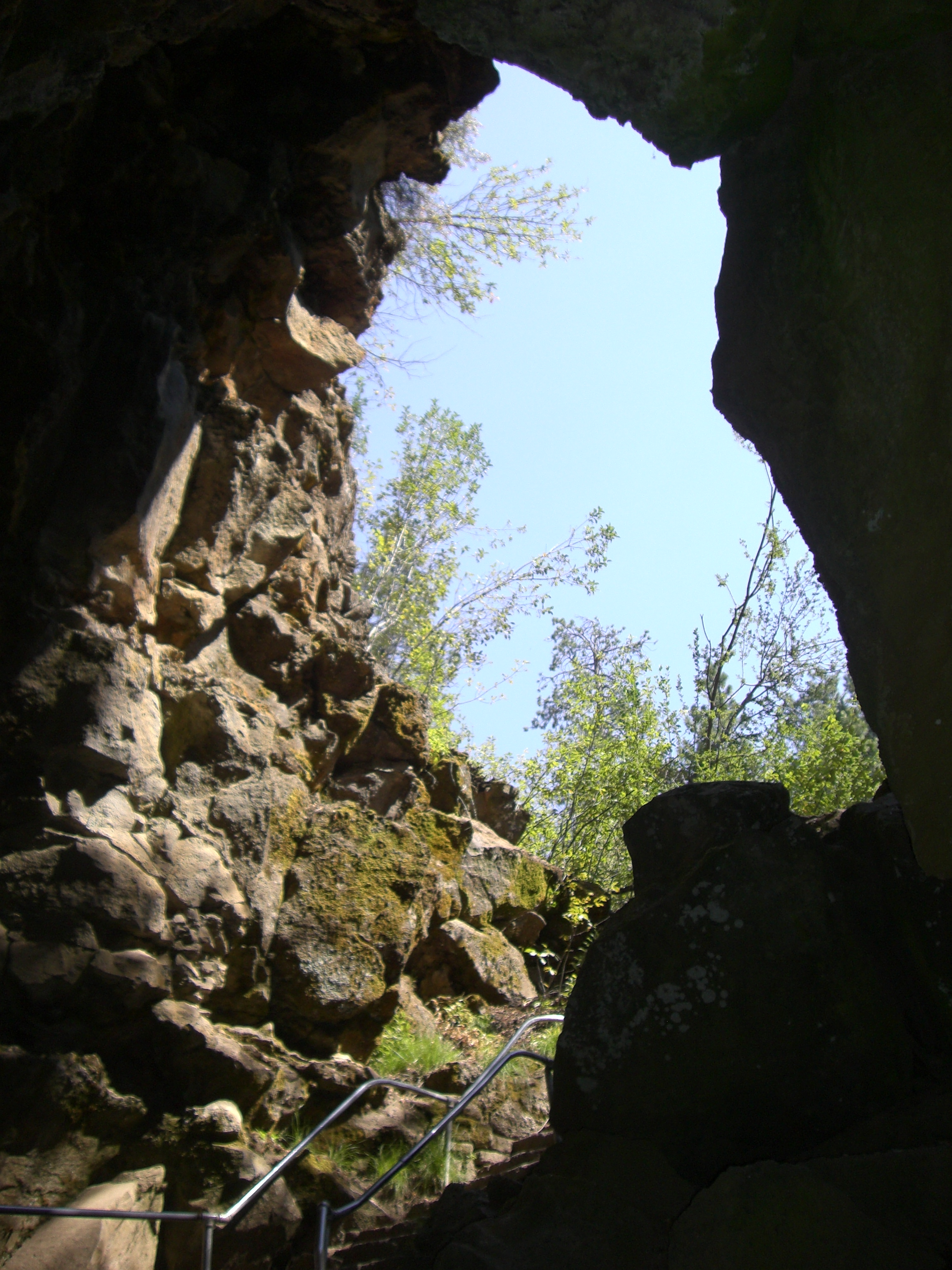 Mouth of the Lava River Cave in Newberry National Volcanic Monument near Bend, Oregon